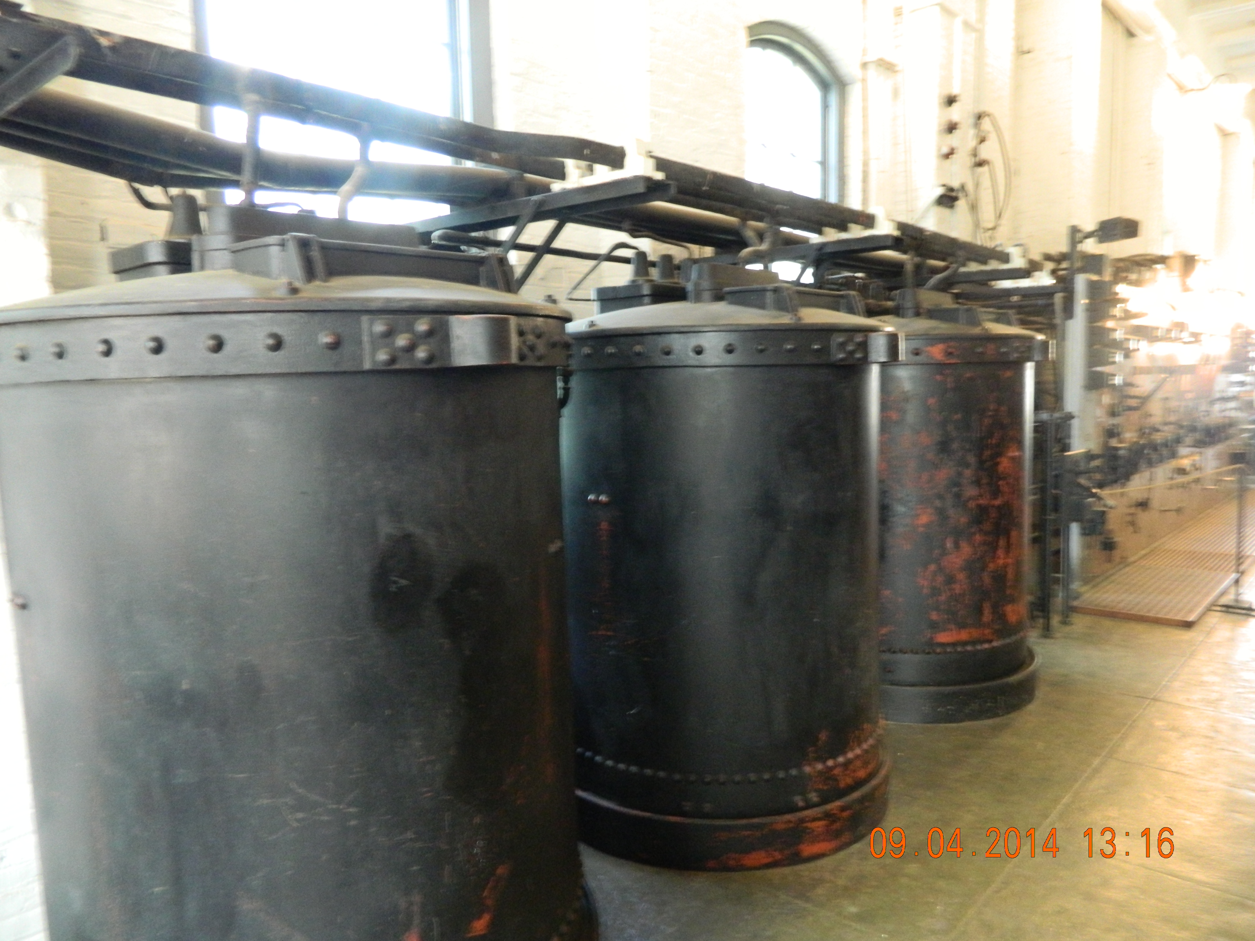 Westinghouse Liquid Cooled